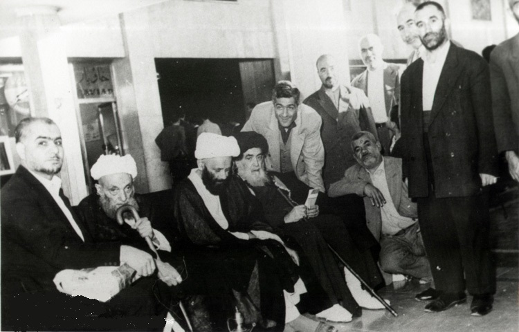 Jalal Al-e-Ahmad